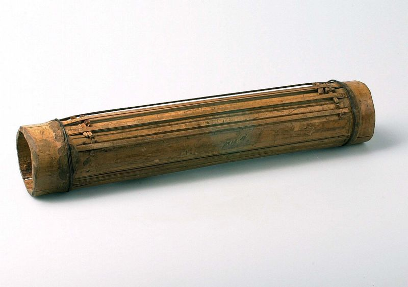 Ogoeng is the Batak word for gong on the island of Sumatra.[1] Boeloe is buluh, meaning bamboo. Tanggetong is a bamboo zither.